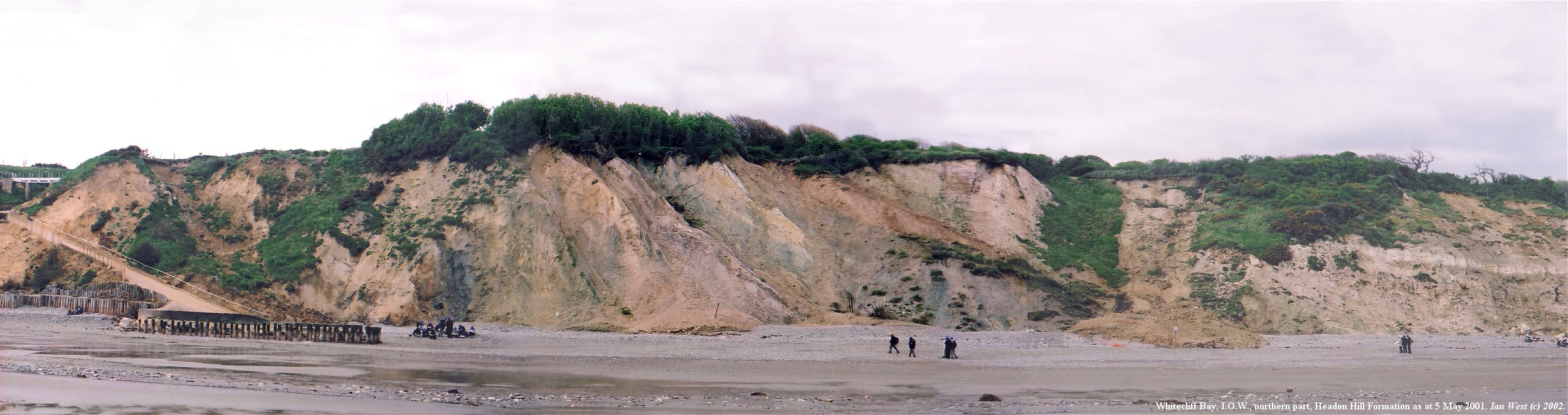 The Headon Hill Formation at Whitecliff Bay, Isle of Wight. The steeply to the north dipping formation is hemmed in between the relatively flat-lying Bembridge Limestone Formation at right and the Becton Sands of the Barton Group at left. Courtesy to Dr. Ian West who kindly granted his permission by email on 2011-10-04.